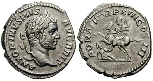 Caracalla. 198-217 AD. CARACALLA. 198-217 AD. AR Denarius (3.42 g). Struck 210 AD. ANTONINVS PIVS AVG BRIT, laureate head right PONTIF TR P XIII COS III, Caracalla on horseback galloping left, about to spear an enemy on the ground below. RIC IV 118b; BMCRE 39; RSC 487. Good VF. Very rare, only two other recorded specimens, one in the BM and the other in Vienna. From the Marc Melcher Collection.